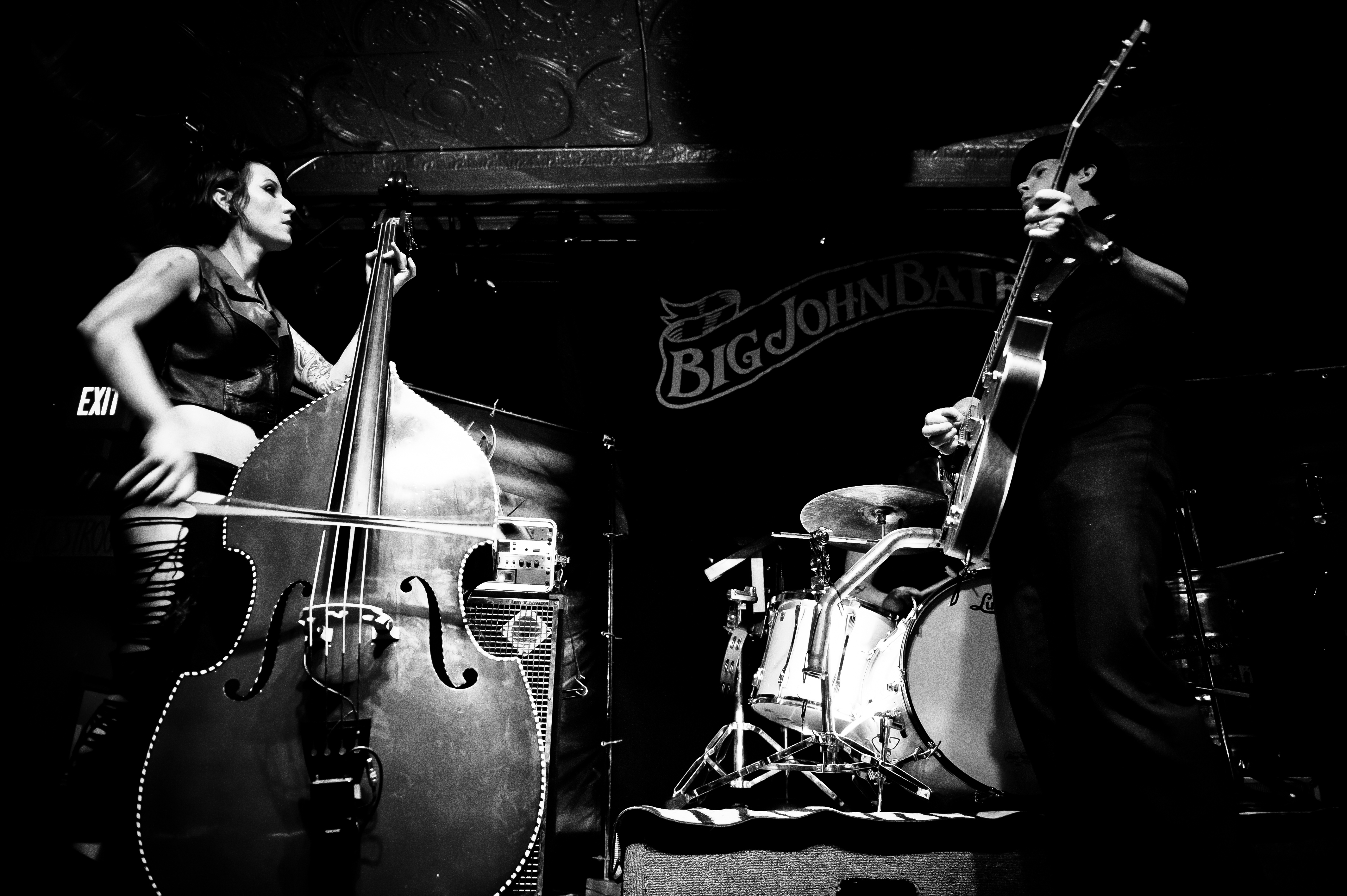 Brandy Bones & Big John Bates in Springfield, MO